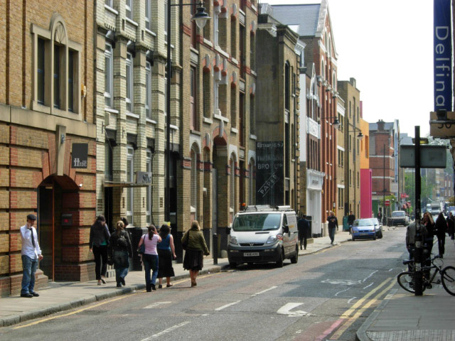 Bermondsey Street Bermondsey street was originally a causeway across marshland to the south of the River Thames giving access to Bermondsey Abbey. It later became an area associated with leather tanning and in recent years has regenerated as an artistic and commercial centre.